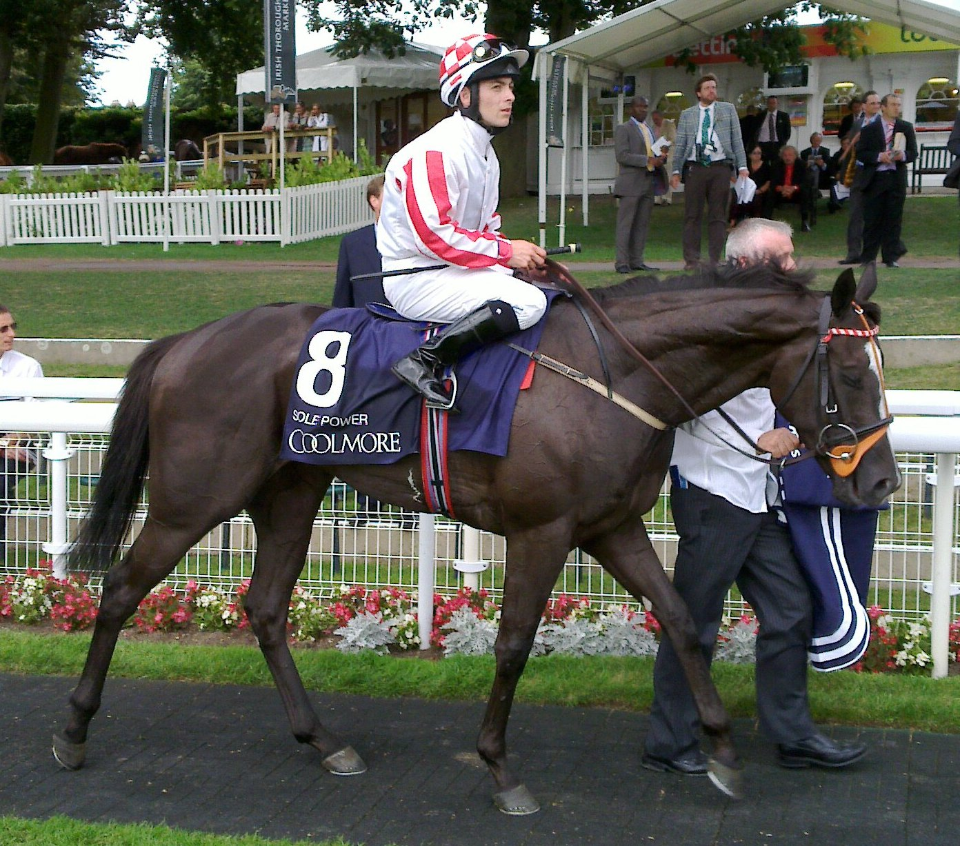 Sole Power returns following stunning victory in big sprint